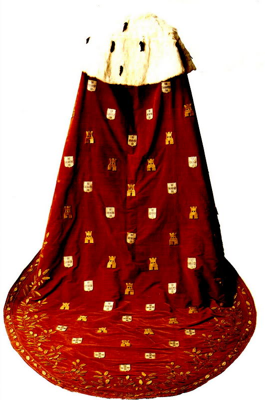 A Piece of the Portuguese Crown Jewels